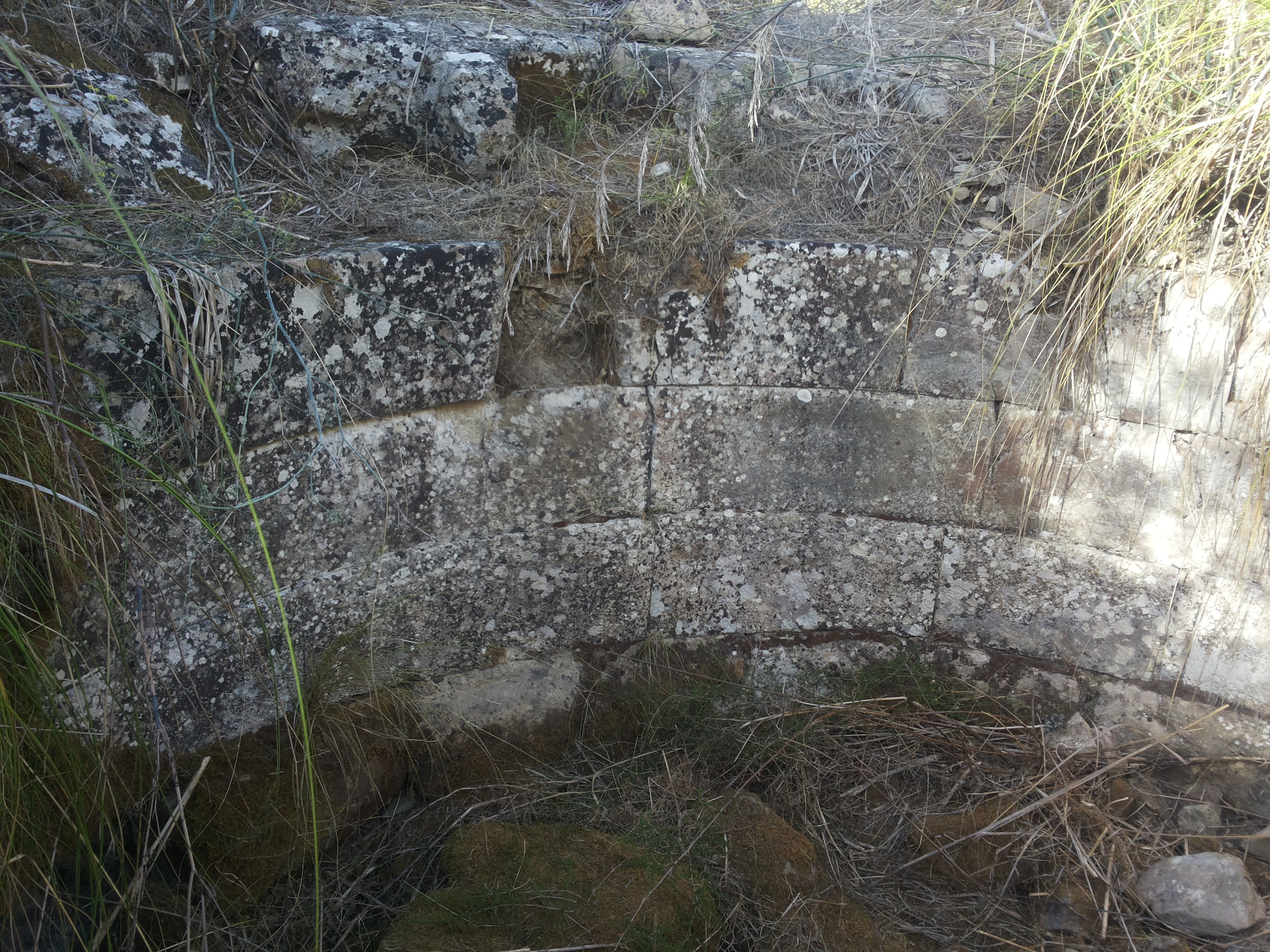 paramento interno pozzo